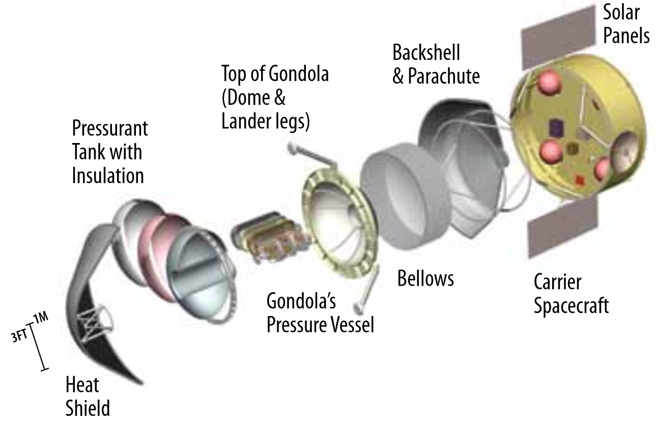 Venus mobile explorer spacecraft : exploded view